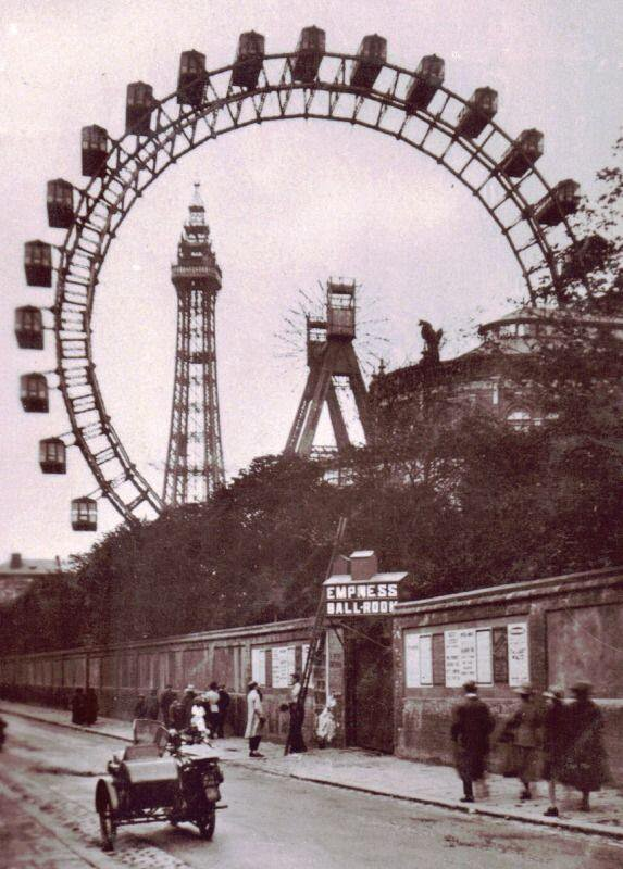 Big Wheel Blackpool from Adelaide Street